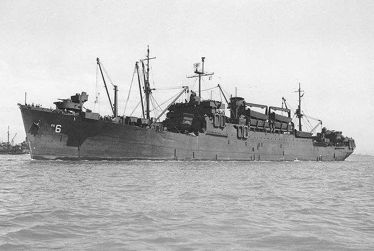 in San Francisco Bay, 23 May 1945.